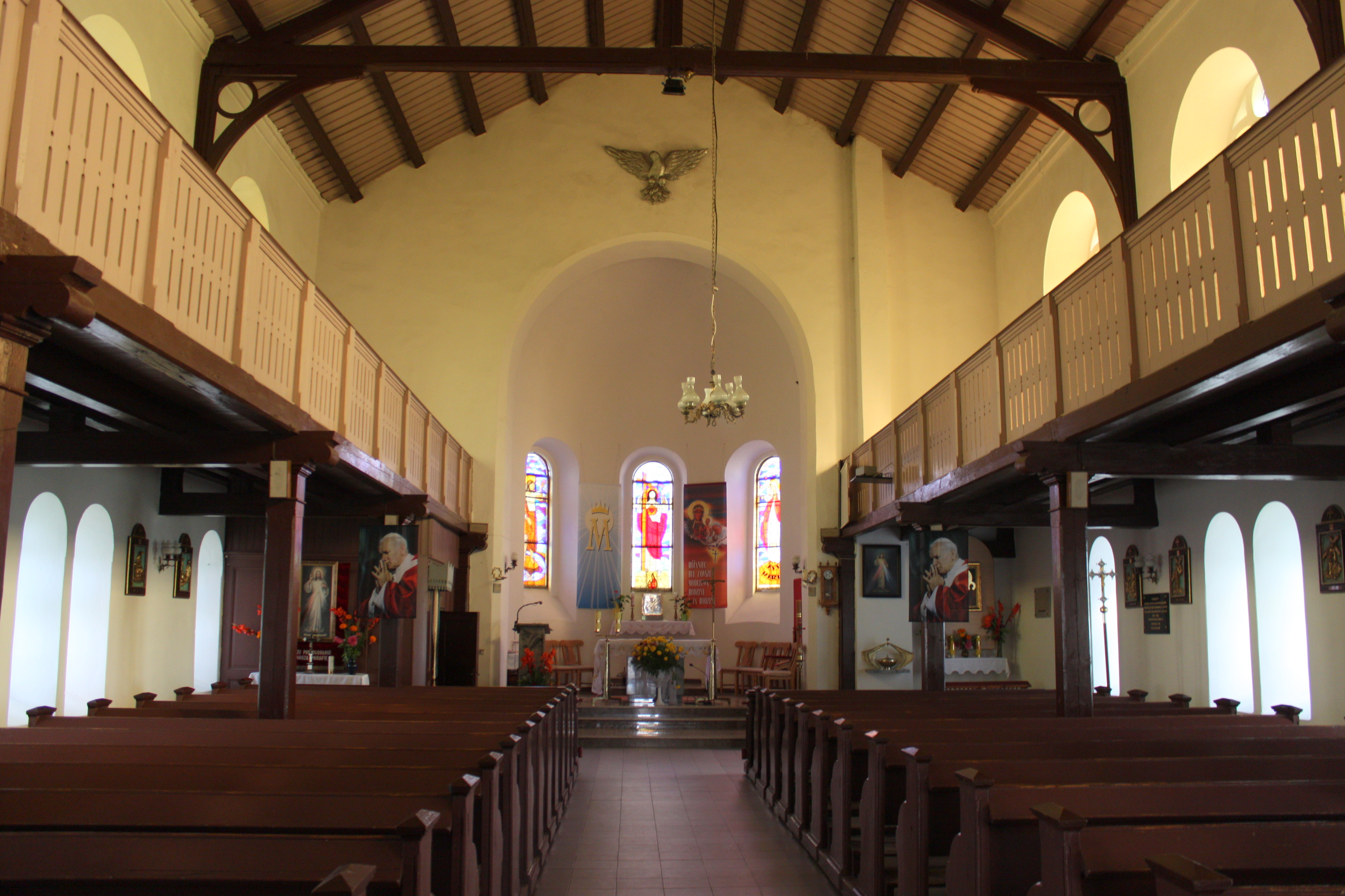 Saint John the Baptist church in Targowo.